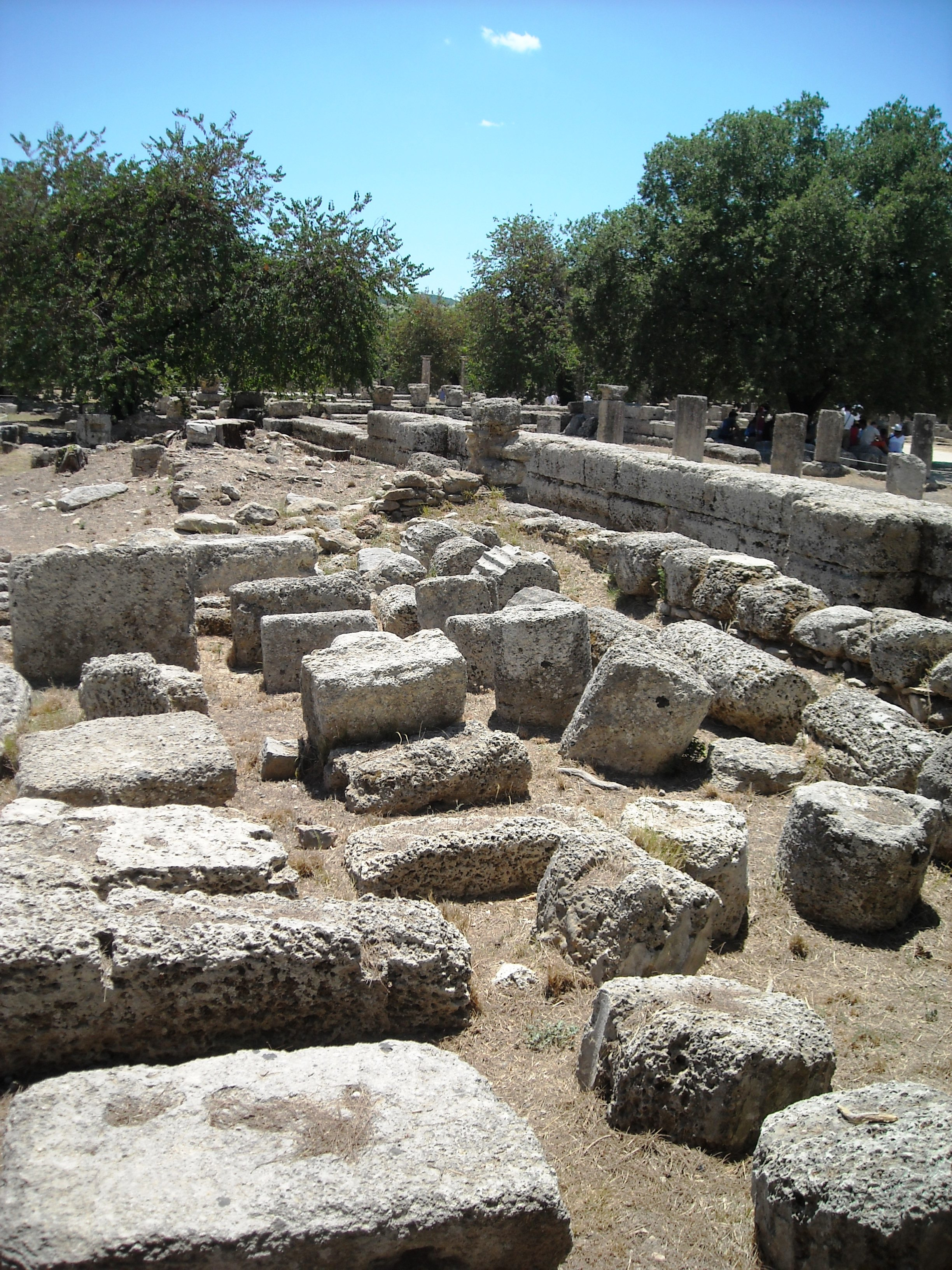 Olympia